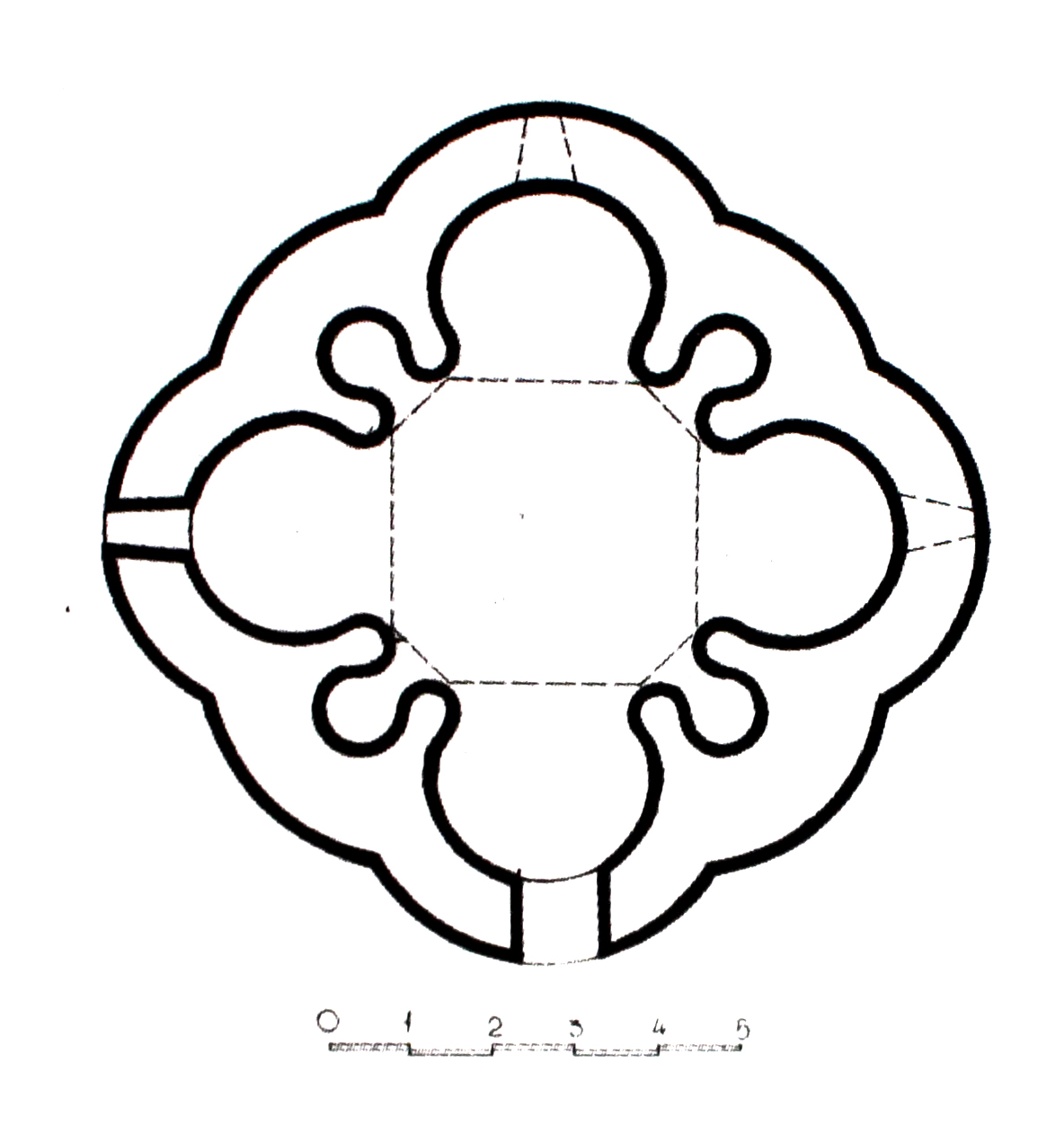 Plan of Mohrenis church